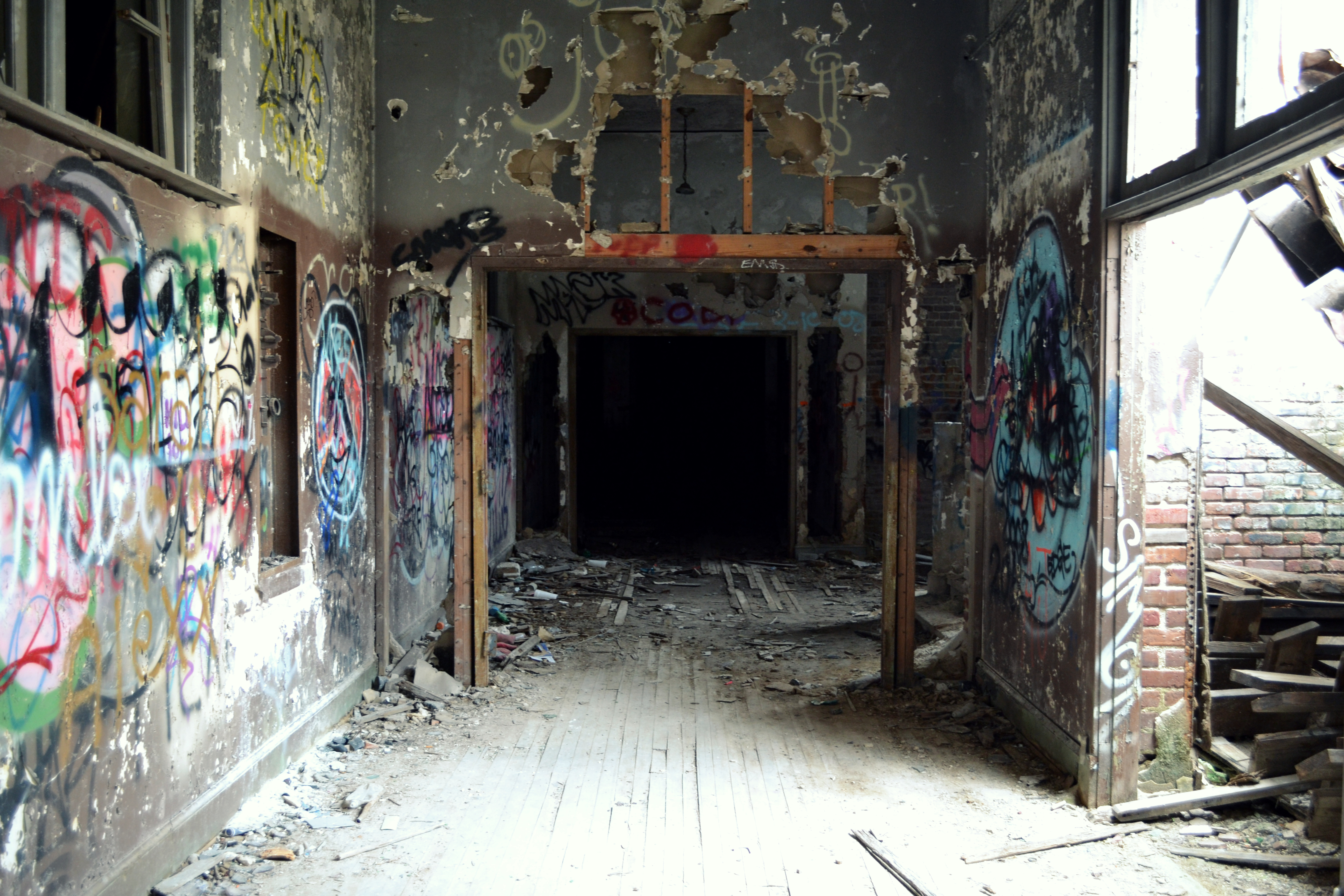 Public School Four